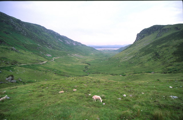 View down the valley of the Owenee River This little known valley is, in my humble opinion, more beautiful than its much better known neighbour, Glengesh. Almost all of the view of the valley floor lies within the grid square.